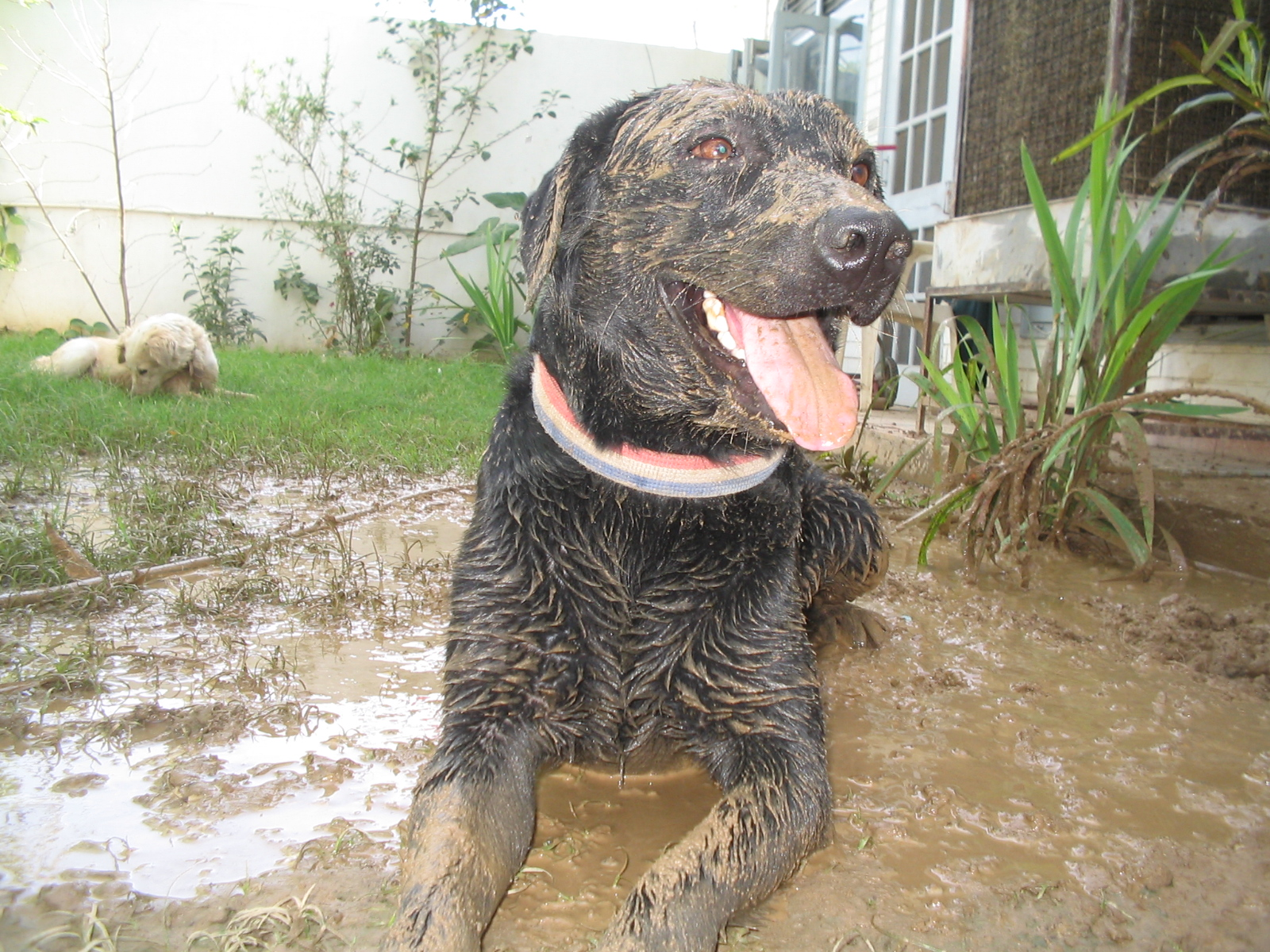 Labradors enjoy playing in water. Noddy can't have enough of playing.